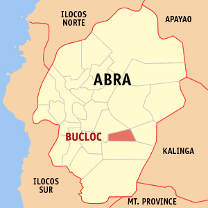 Map of Abra showing the location of Bucloc